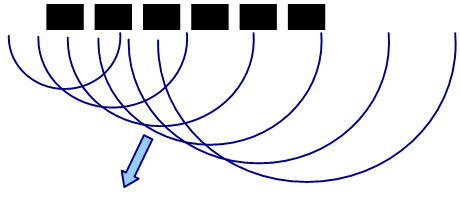 Principle of operation of phased array (PA). The PA probe consists of many small elements, each of which can be pulsed separately. In this figure the element on the right is pulsed first, and emits a pressure wave that spreads out like a ripple on a pond (largest semi-circle). The second to right element is pulsed next, and emits a ripple that is slightly smaller than the first because it was started later. The process continues down the line until all the elements have been pulsed. The multiple waves add up to one single wave front travelling at a set angle. In other words, the beam angle can be set just by programming the pulse timings.